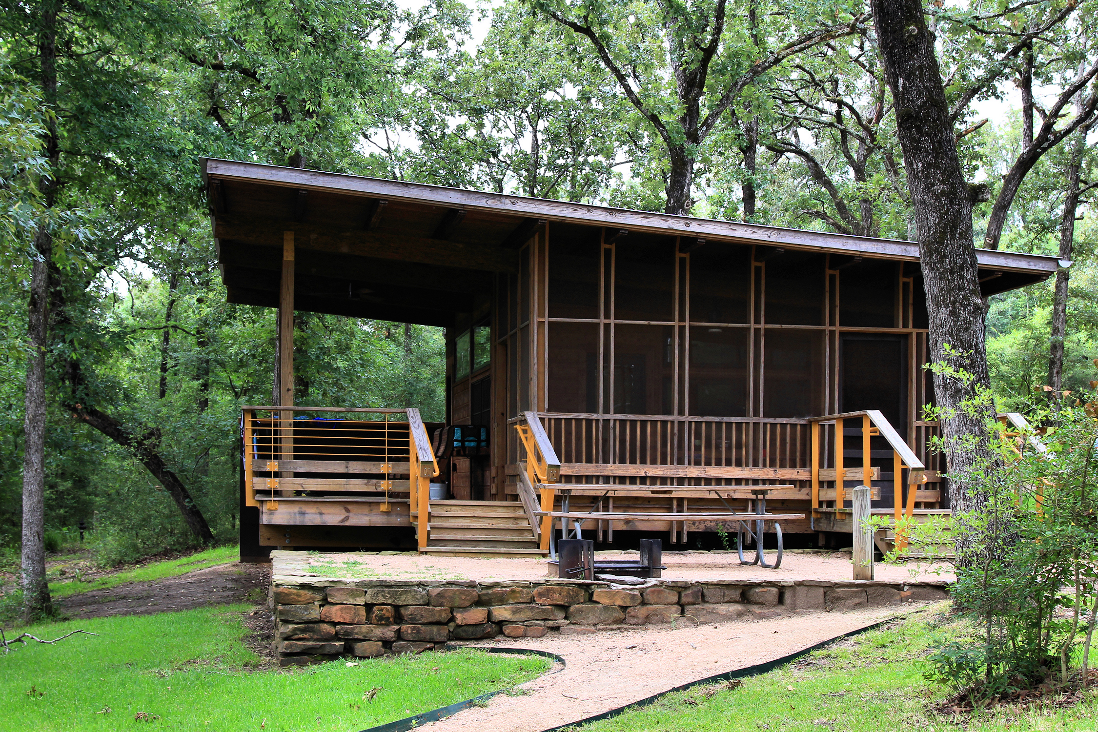 A cabin in Fort Boggy State Park, Texas.